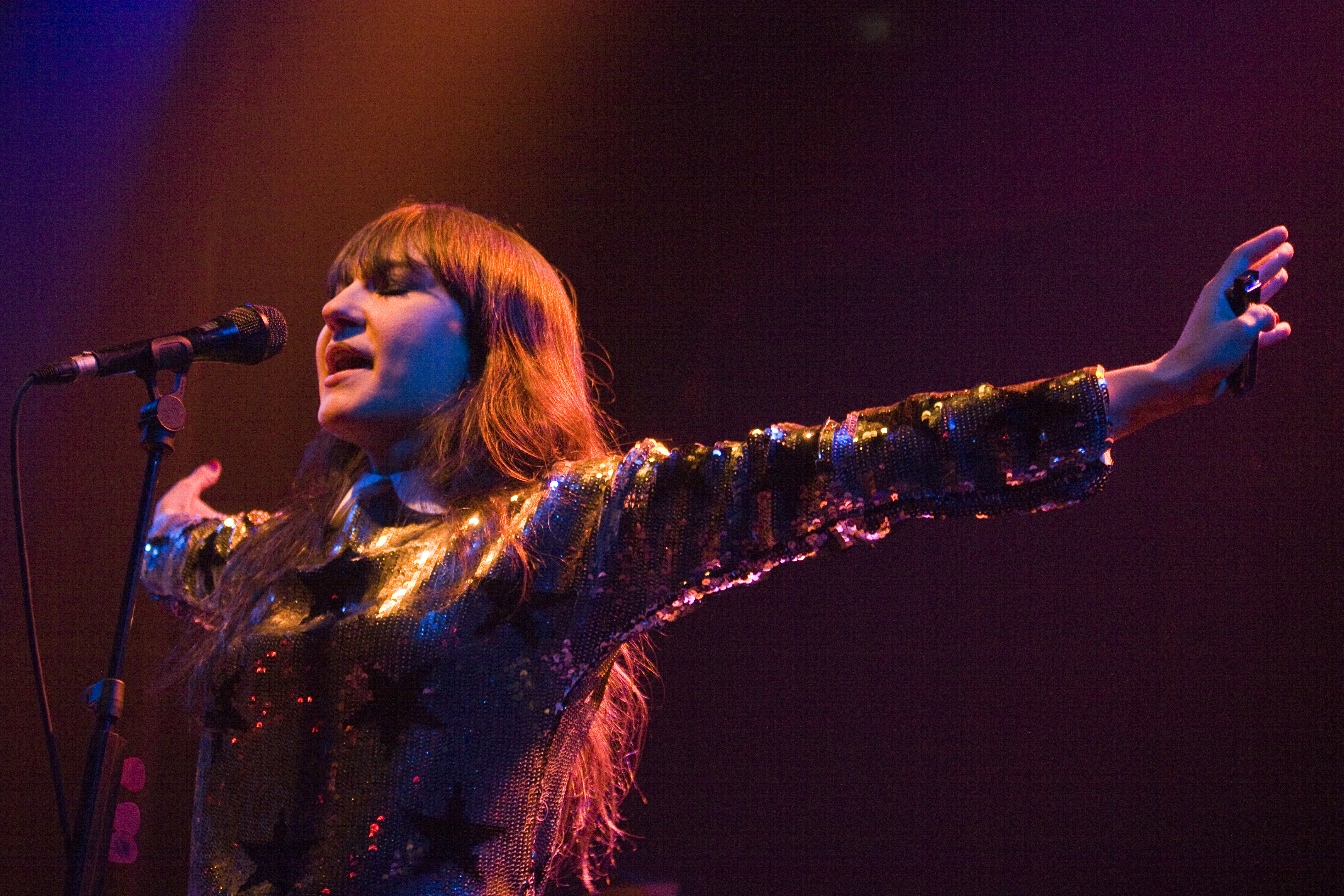 Eva Amaral in Sala Apolo, Barcelona, Catalonia, Spain.